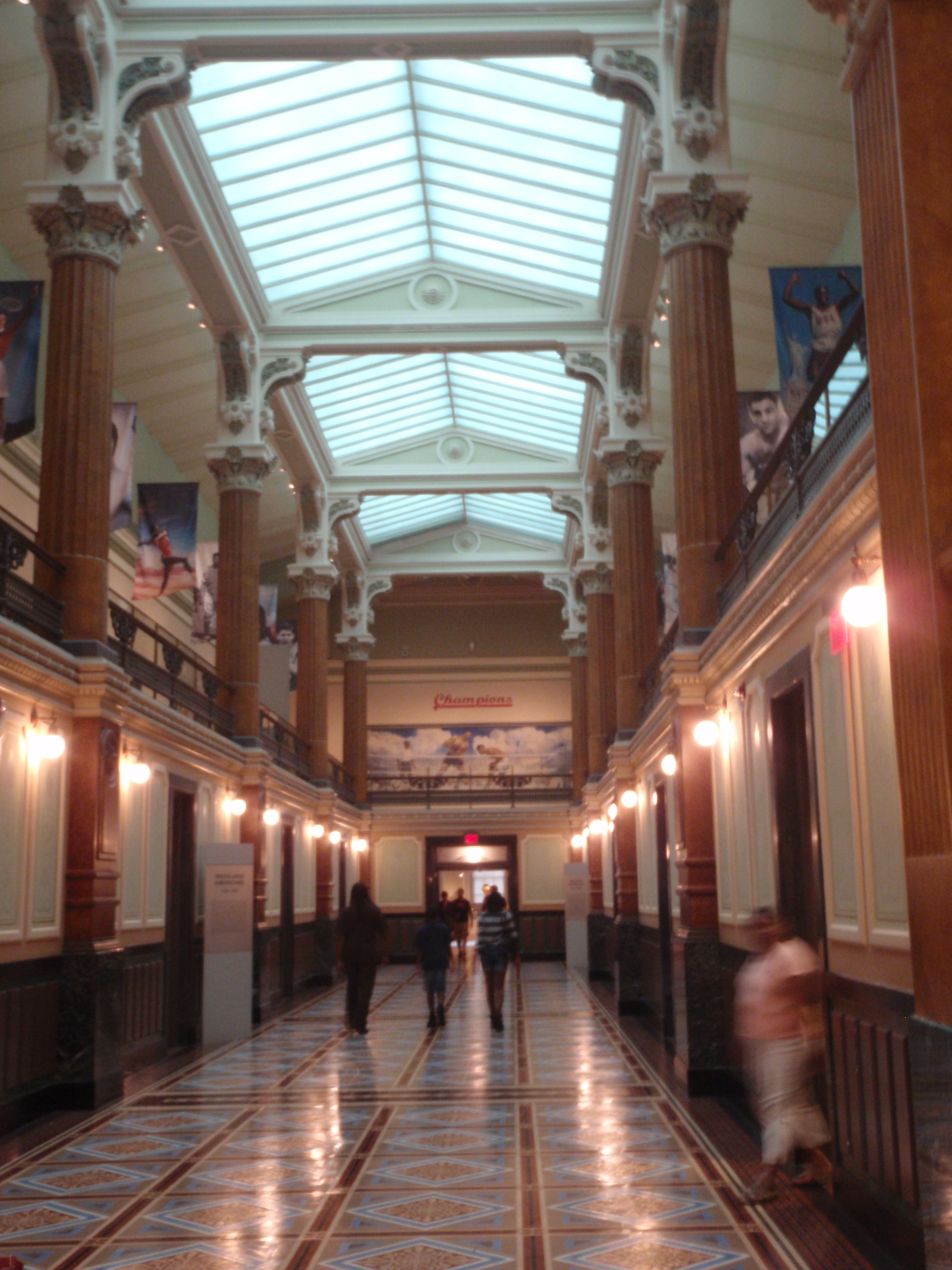 National Portrait Gallery